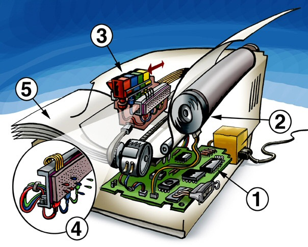 Cutaway drawing, illustration of an inkjet printer